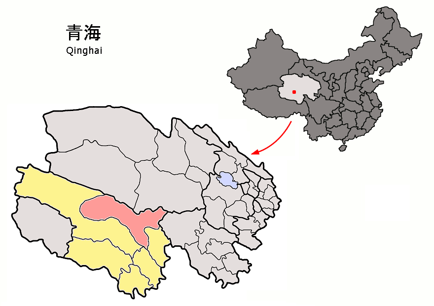 Location of Qumarleb County (pink) and Yushu Prefecture (yellow) within Qinghai province of China Map drawn in september 2007 using various sources, mainly : Qinghai province administrative regions GIS data: 1:1M, County level, 1990 Qinghai Counties map from "Plateau Perspectives" (the limits of some county-level subdivisions may not be accurate)